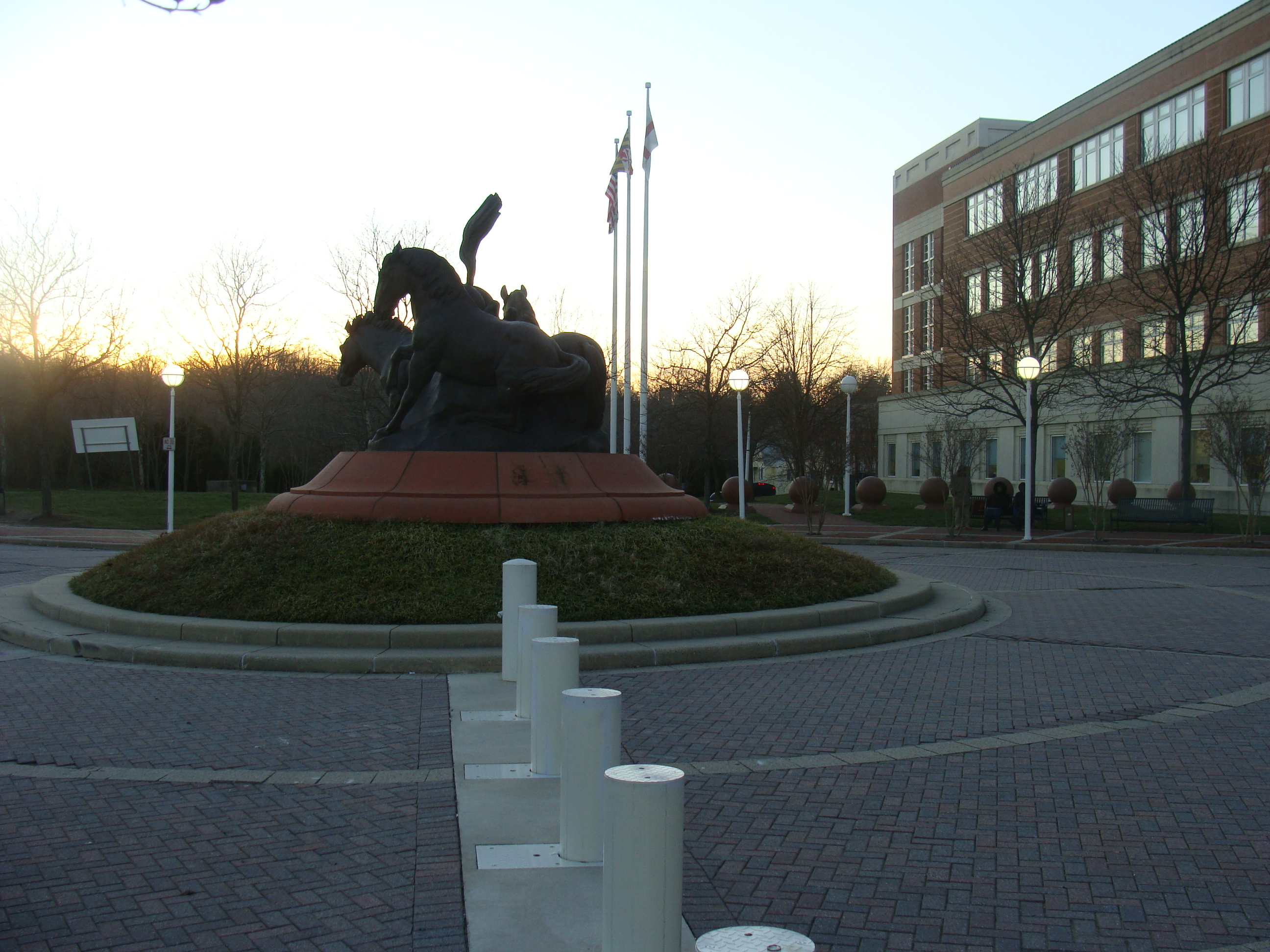 Photo of featuring the Three Horse Statue and the front of the courthouse